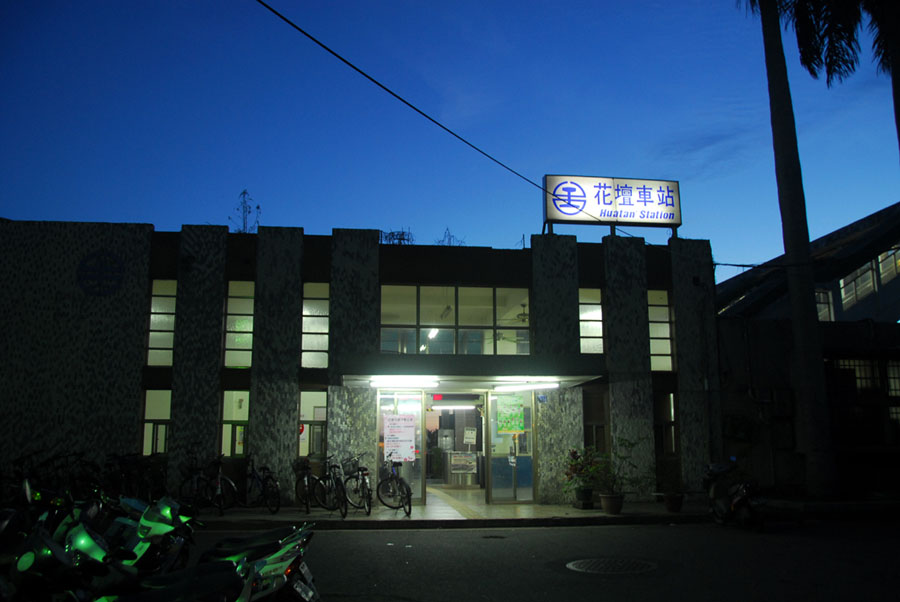 Huatan Station is a small train station of Taiwan's Western Main Line. The train station is the central station of Huatan Township, a small town in Changhua County.